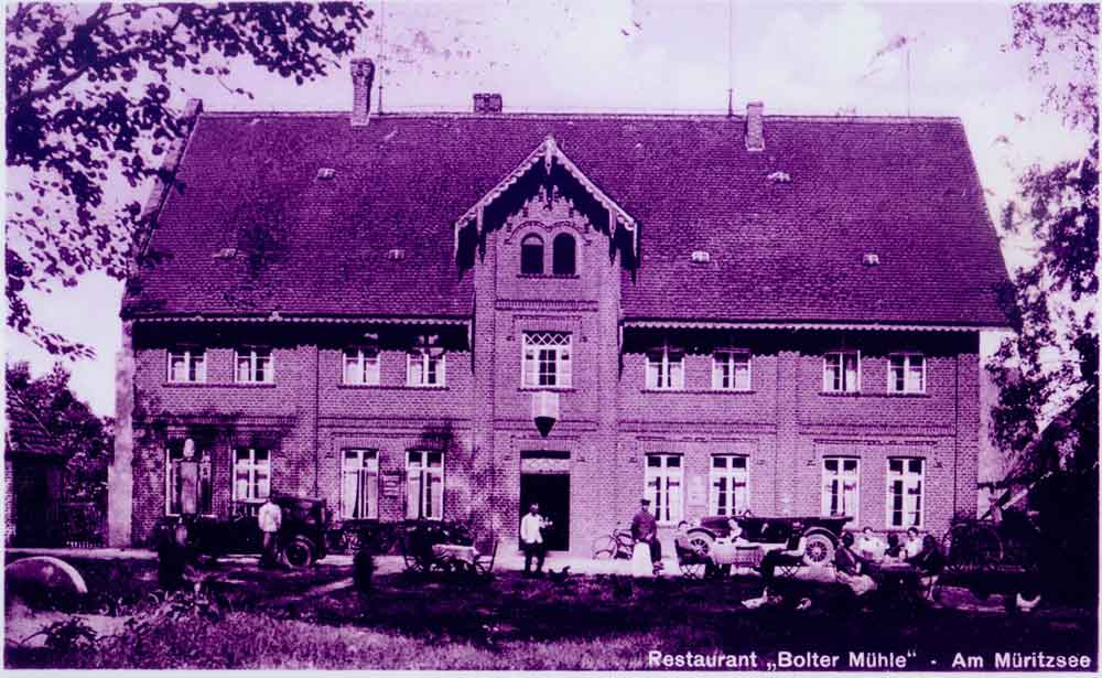 Bolter Mühle als Gast- und Logierhaus, 1935